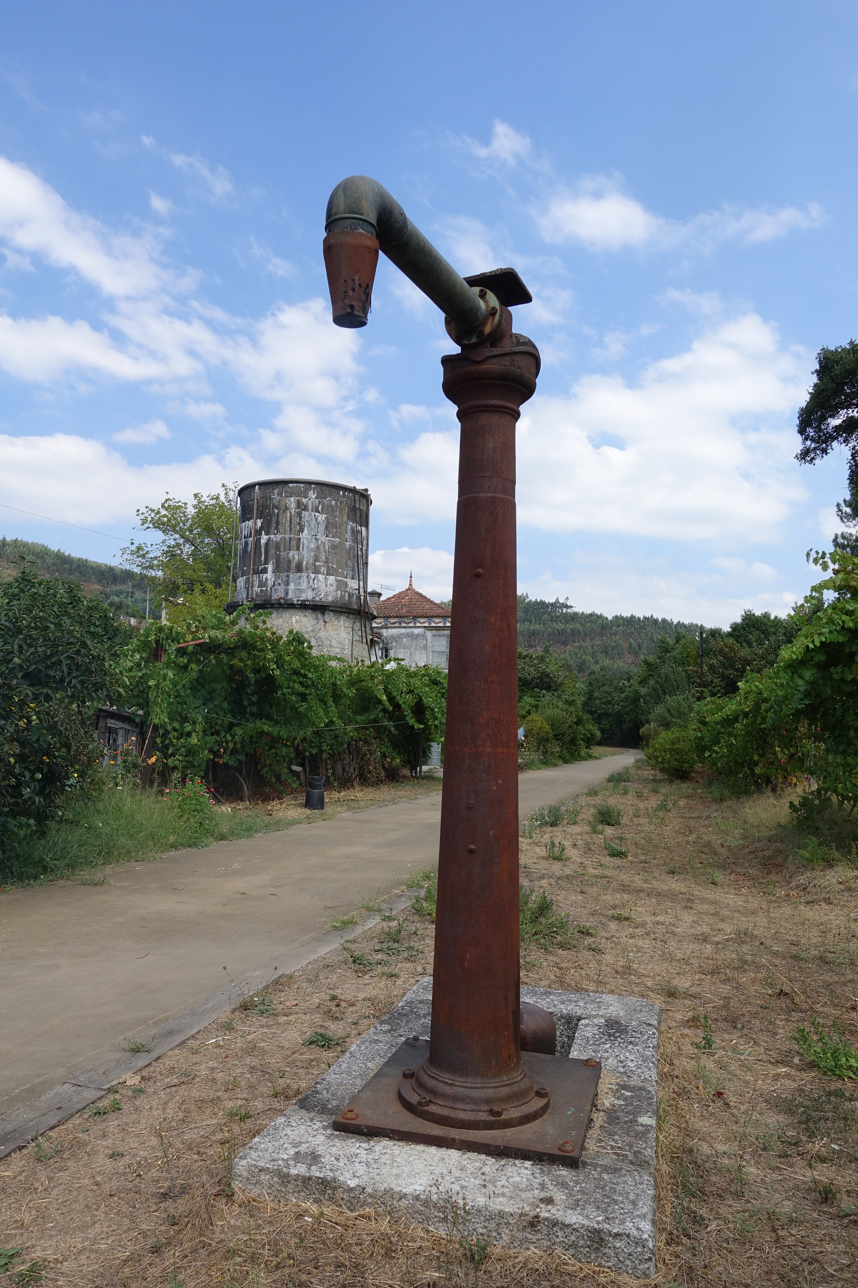 Ecopista do Tâmega, Portugal.